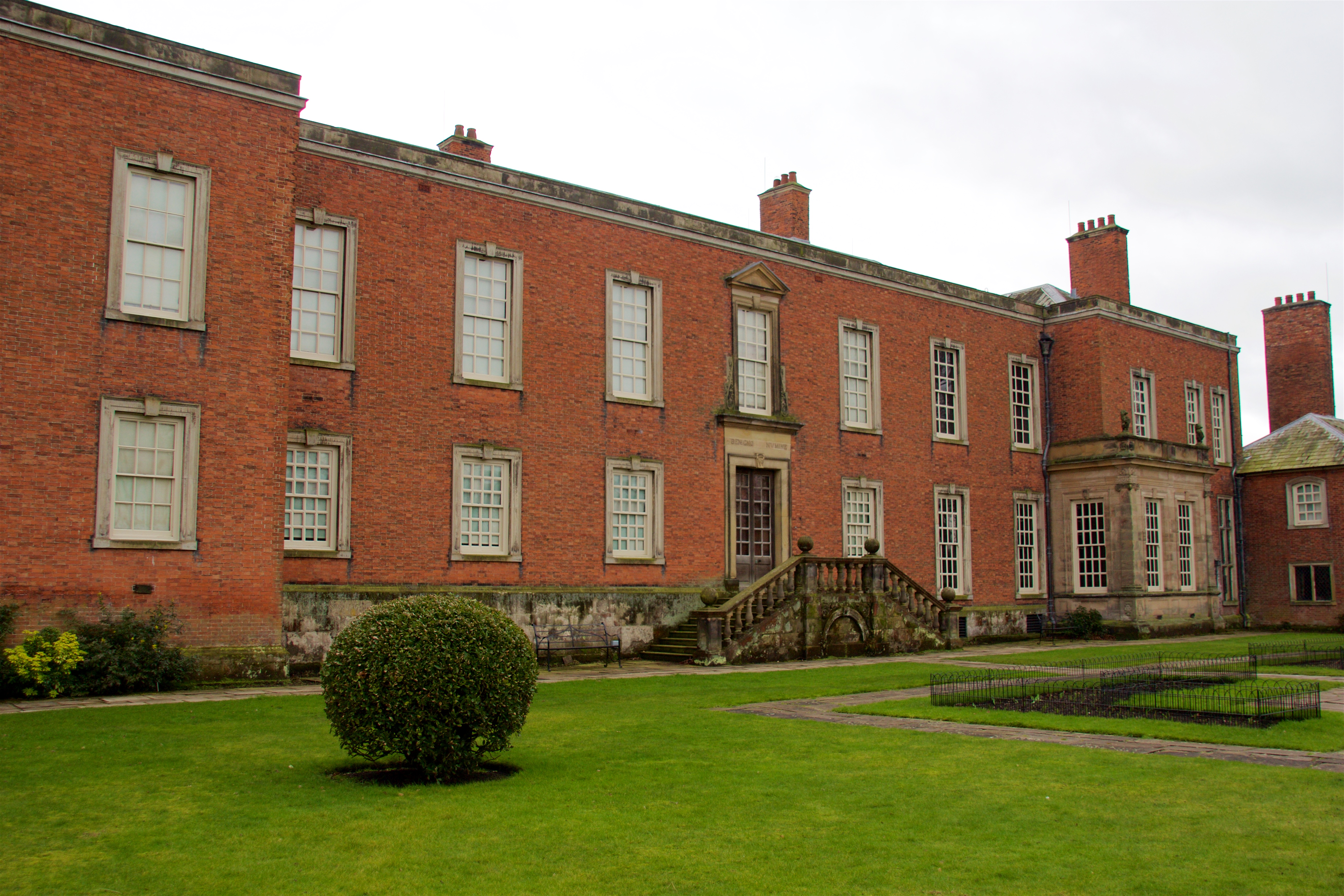 Dunham Massey gardens, Greater Manchester, UK.